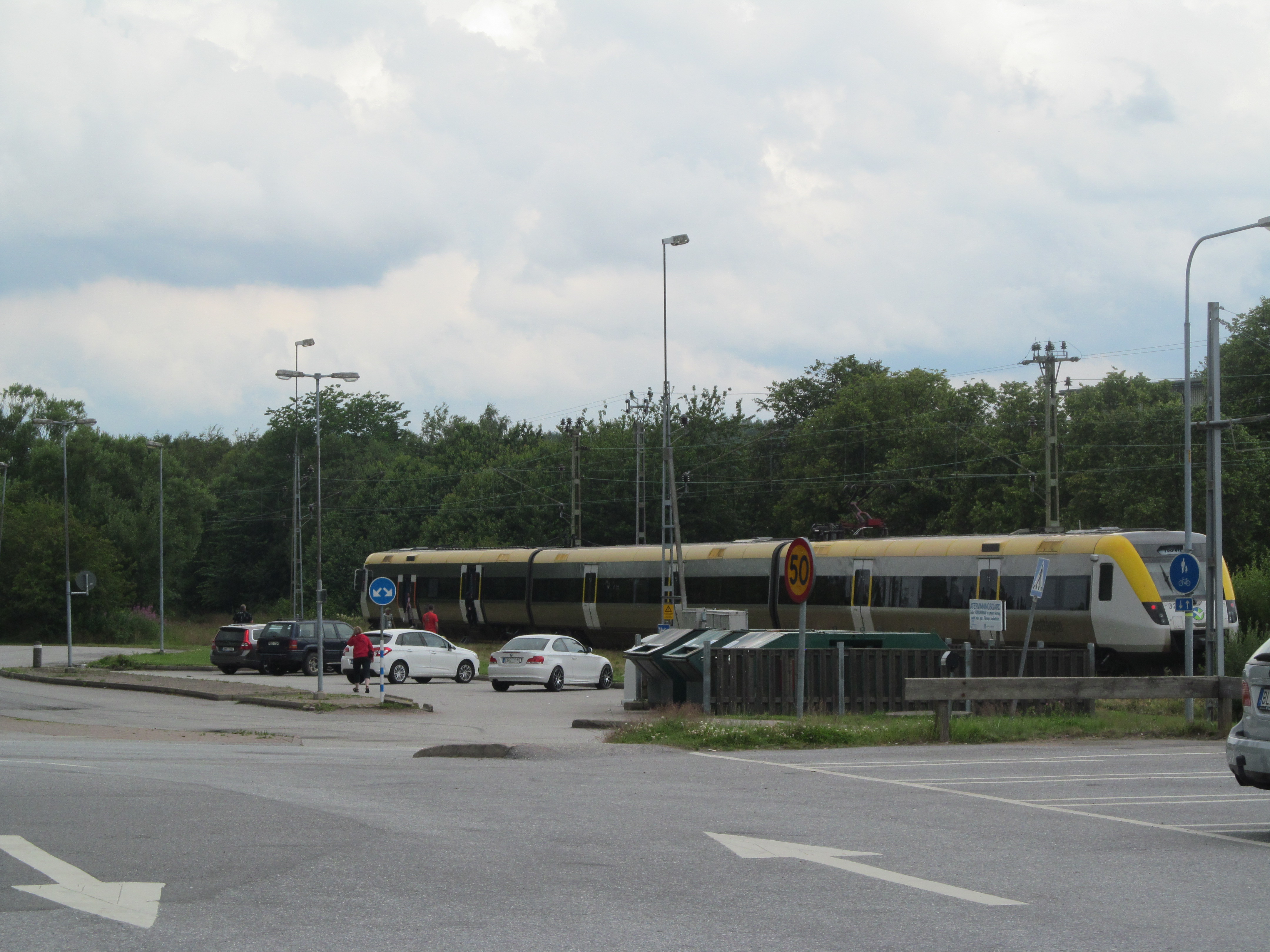 A train run for demonstrational purpose has stopped in Brastad on Lysekilsbanan